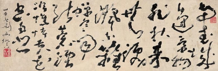 The painting by Gao Jianfu (1879-1951)